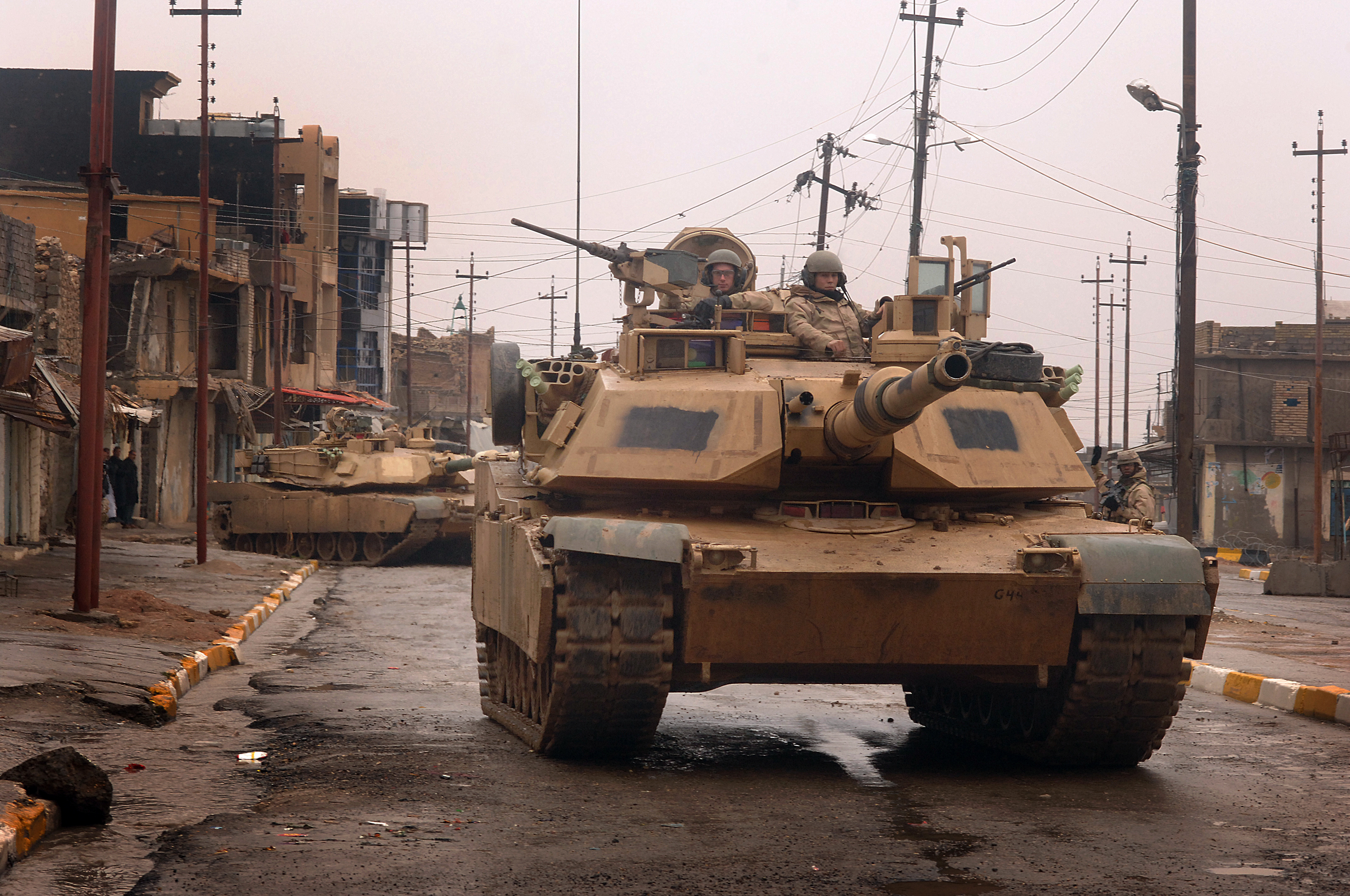 U.S. Army M1A2 Abrams tanks maneuver in the streets as they conduct a combat patrol in the city of Tall Afar, Iraq, on Feb. 3, 2005. The tanks and their crews are attached to the 3rd Armored Cavalry Regiment. DoD photo By Staff Sgt. Aaron Allmon, U.S. Air Force. (Released) (Released to Public)